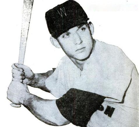 Washington Senators outfielder Bob Allison in a 1959 issue of Baseball Digest.